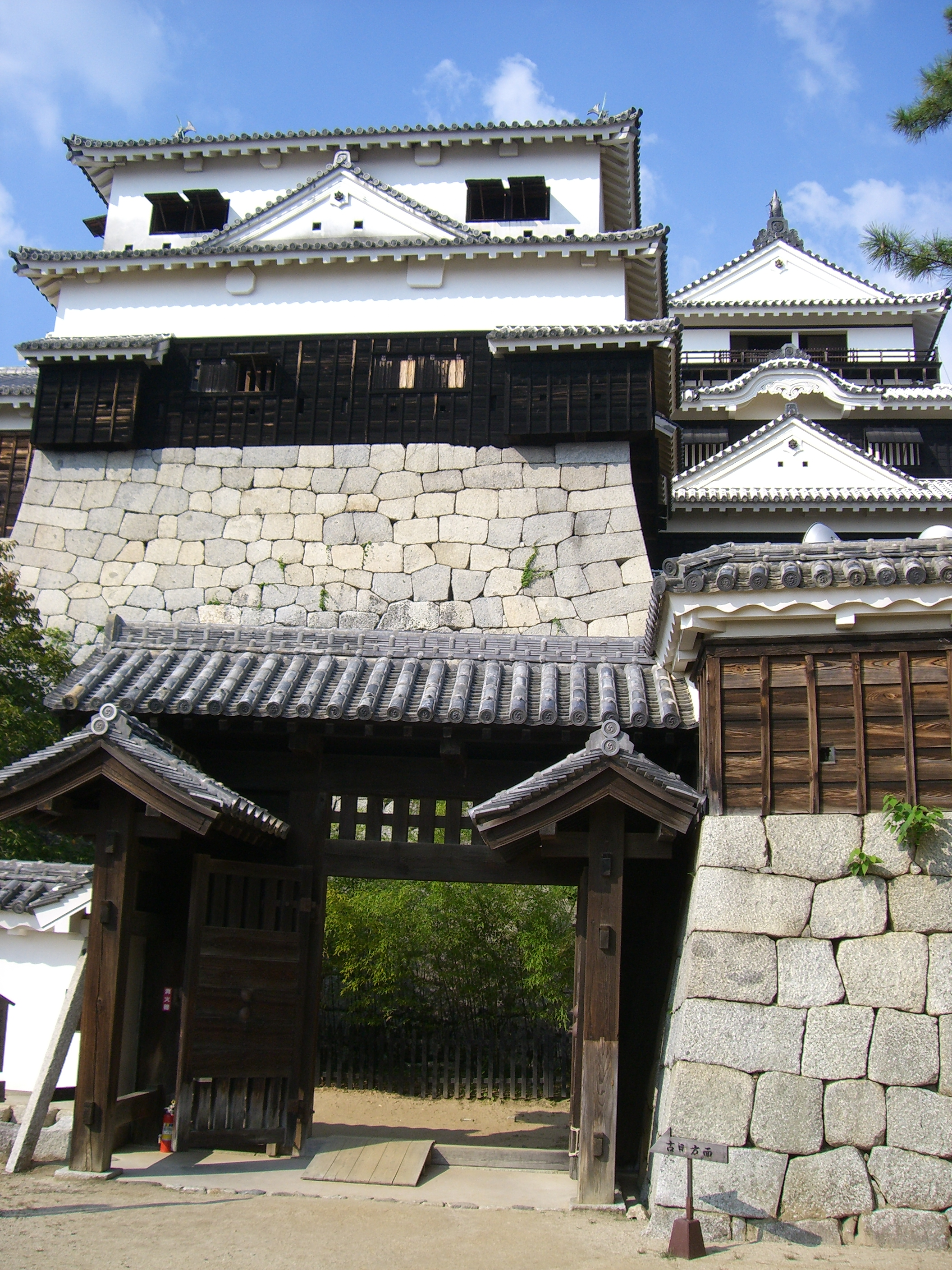 Towers and Shichiku-mon gate (Matsuyama Castle, Ehime, Japan)："Sho Tenshu" (Minor Tower) offers lookout to Ichi-no-mon (the first gate to the keep) as well as to the front side of Honmaru (main enclosure), Shichiku-mon gate, Ninomoru (second enclosure, lower west side of the hill) and Sannomaru (third enclosure, present Horinouchi Park). Located below Sho Tenshu is "Shichiku-mon" (lit. Purple Bamboo Gate：Important Cultural Property of Japan), categorized as Korai-mon (lit. Korean gate). This gate, together with the walls attached to its east and west sides, separates Ote (front side) and Karamete (rear side) of Honmaru. These structures are important for separating enemies attacking from front and and rear sides.